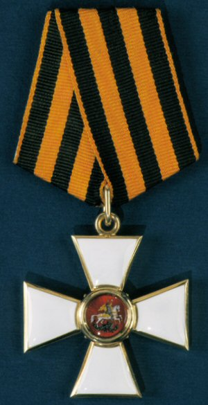 Russian Federation. Order of St George 4th class. Reinstated after its abolition in 1917, the Order Of Saint George is the supreme military order of Russia, awarded to officers for brilliant military operations. It has four degrees (I through IV, the first being the highest) awarded successively.